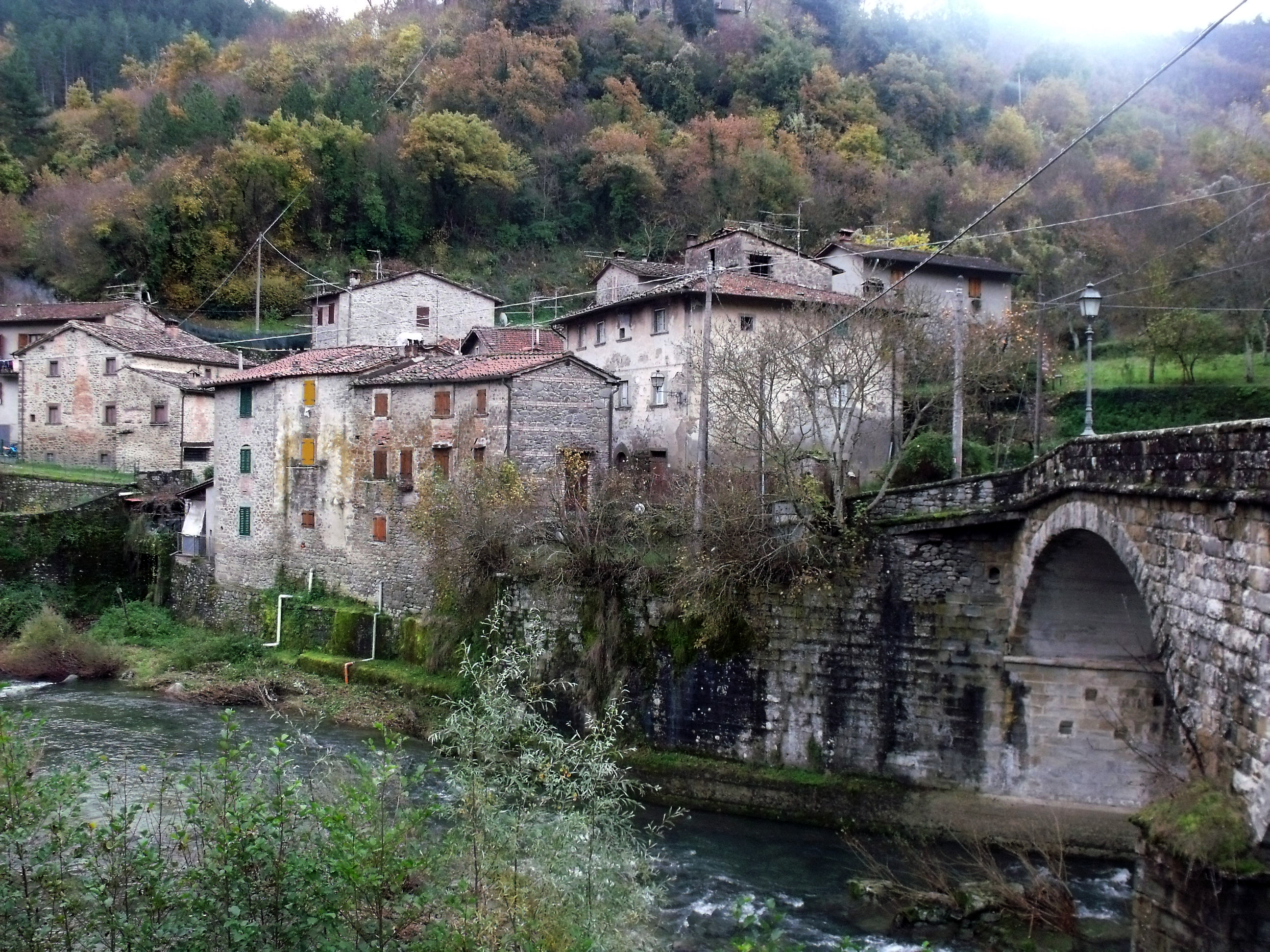 Borgo Castellano and Solano River in Castel San Niccolò, Province of Arezzo, Tuscany, Italy